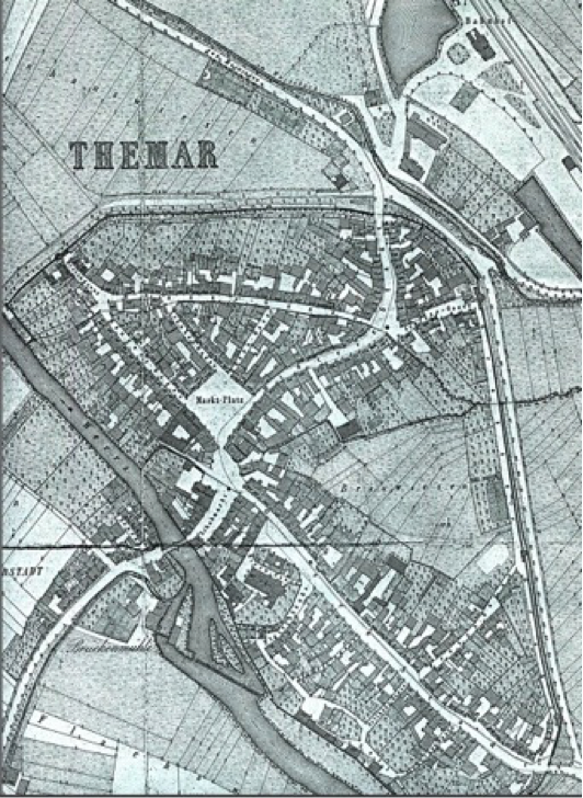 Map of Themar